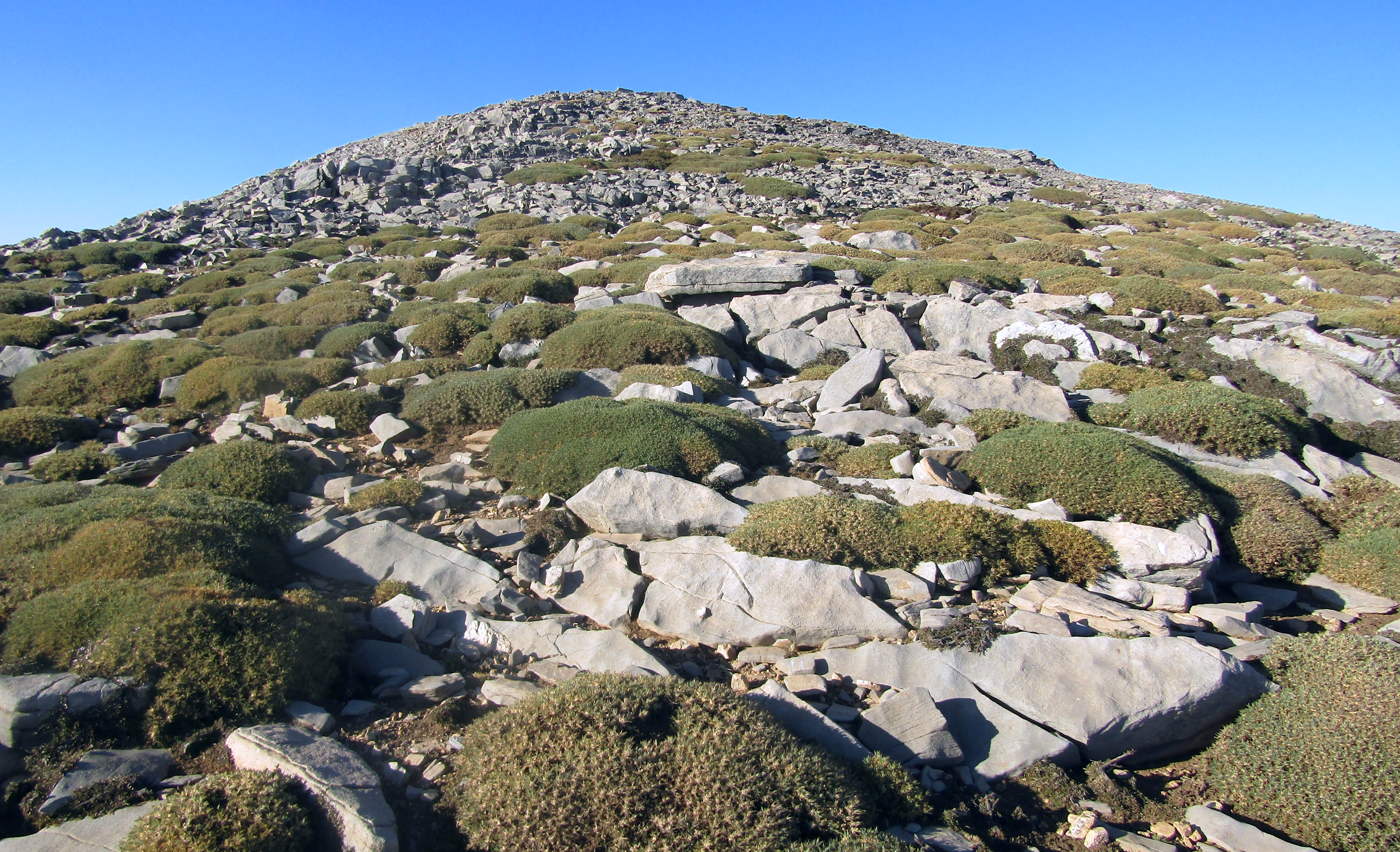 Mountain karstic steppe near Mount Agathias (Crete)